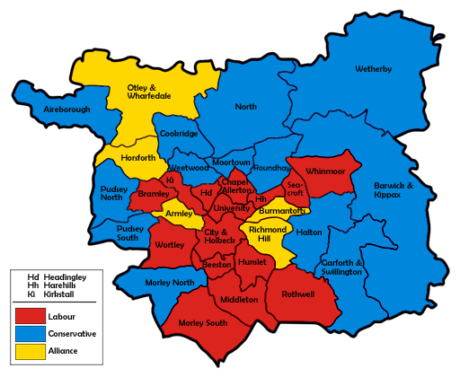 Ward map of Leeds City Council with political colouring.